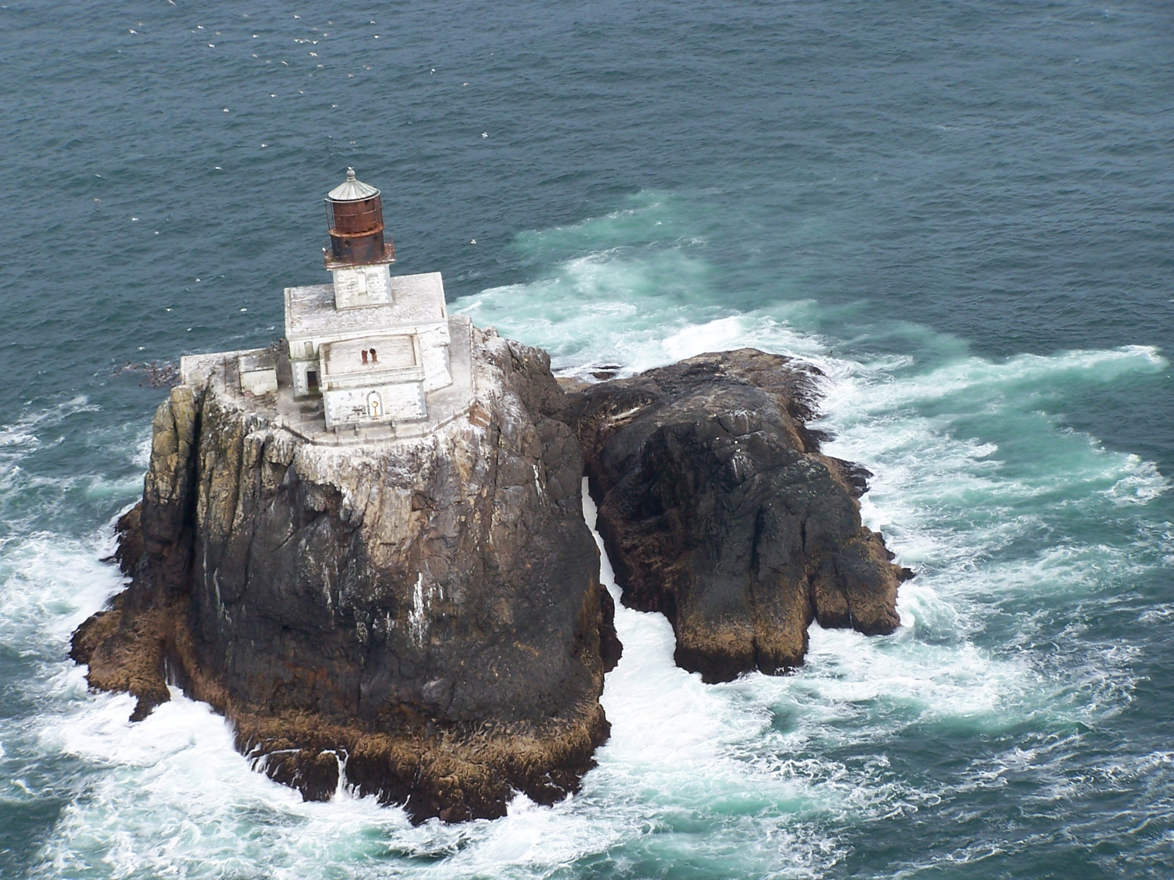 Tillamook Rock Lighthouse. An abandoned lighthouse near Tillamook Rock, Oregon, USA.